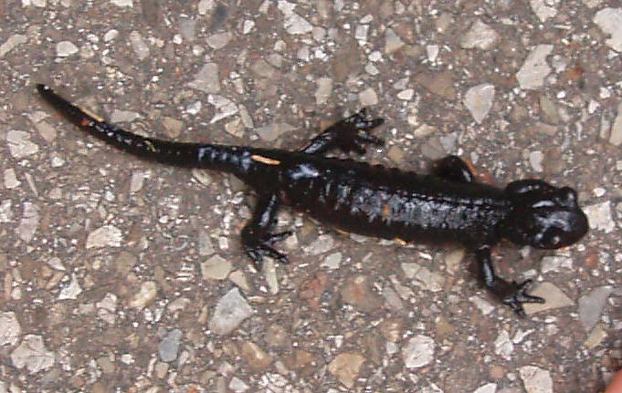 Salamandra atra